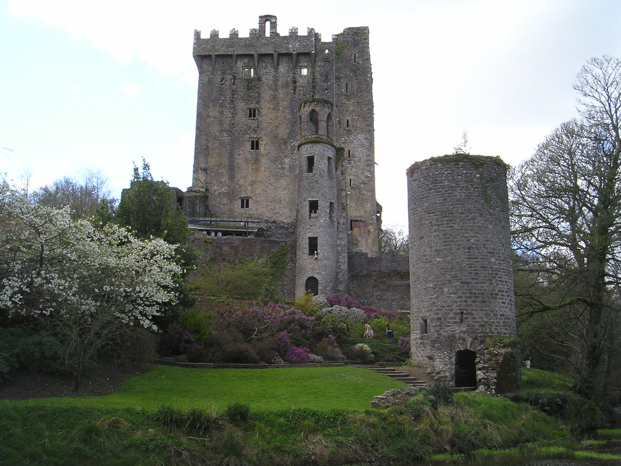 Blarney Castle